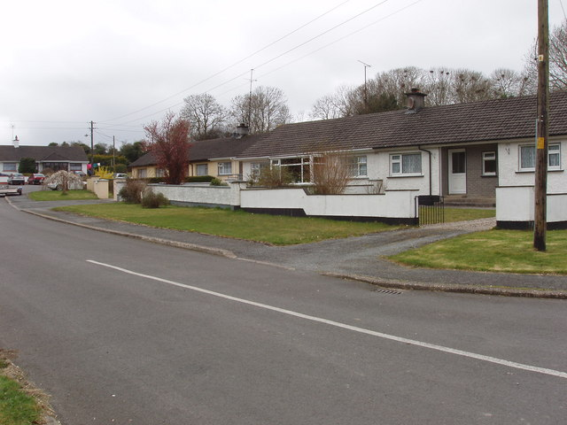 Houses in St Patrick's Terrace, Crossabeg, near to Crossabeg and Kyle Cross Roads, Wexford, Ireland. The houses are in a cul-de-sac running south from the Crossabeg-Castlebridge road.